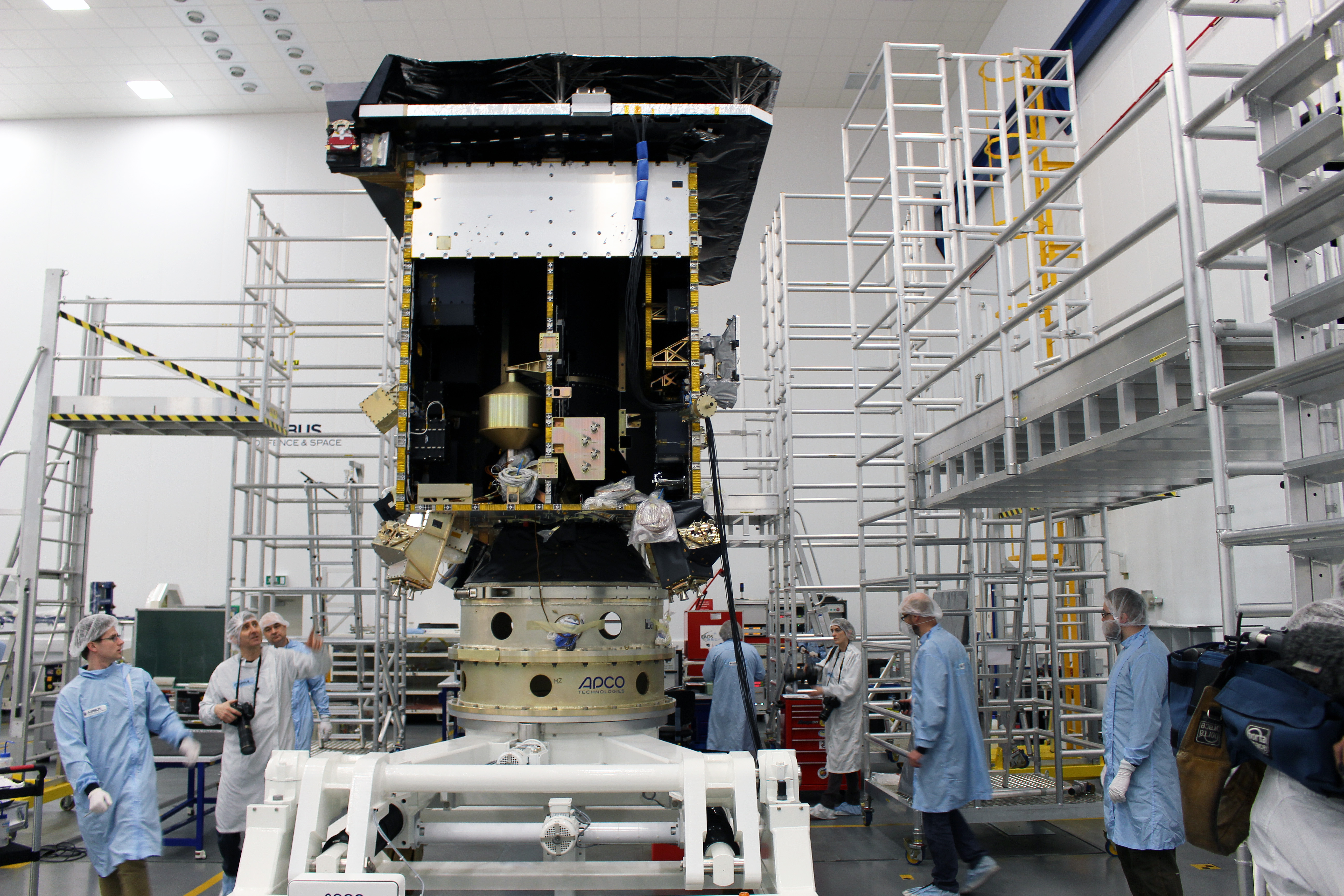 A view of the Solar Orbiter STM. This is part of a set of photos showing the Solar Orbiter Structural Thermal Model (a full scale model of the spacecraft, which will be used for testing), taken at the Airbus Defence & Space facility in Stevenage in March 2015. Photo credit: O. Usher (UCL MAPS)